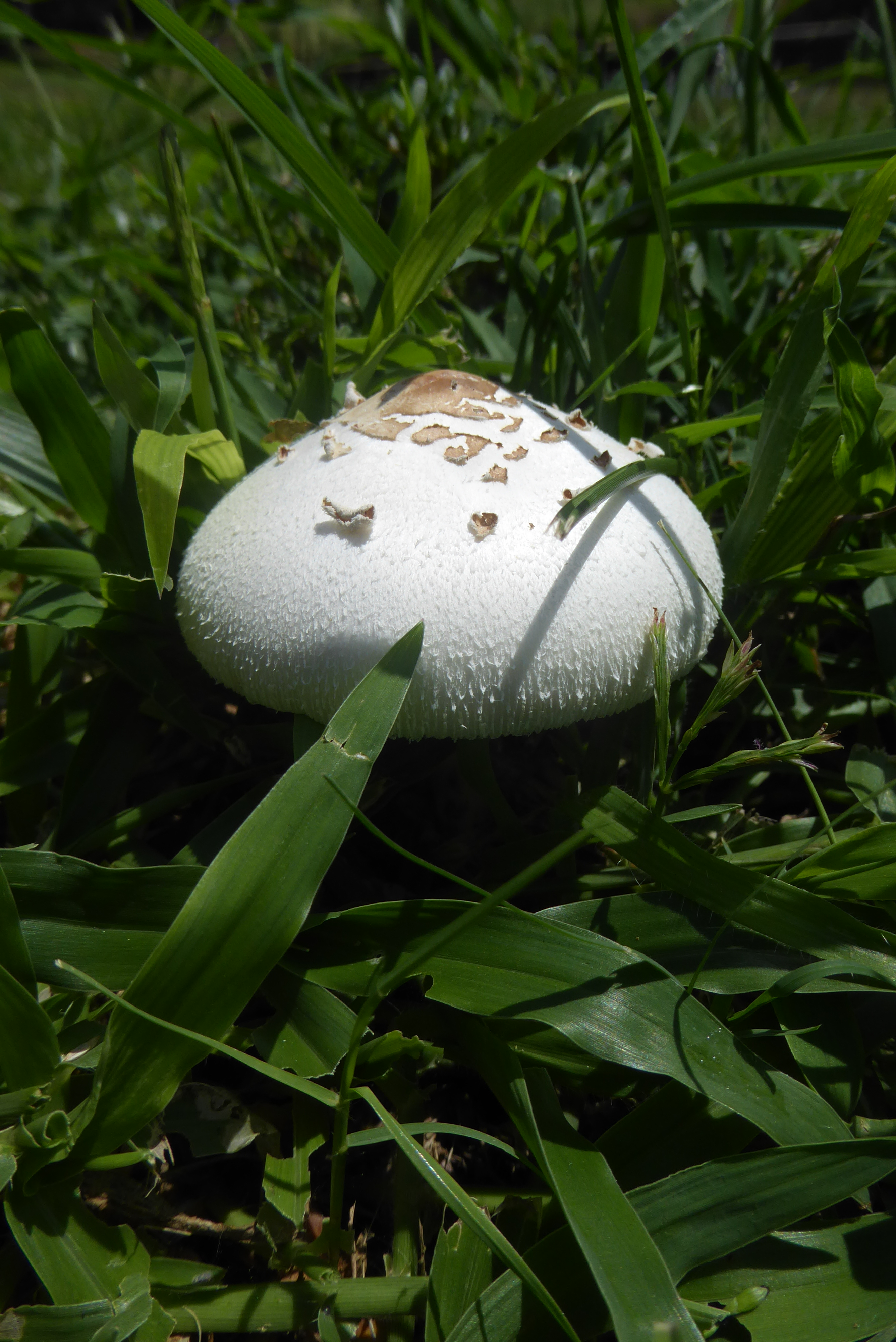 Edith Wolfson Park